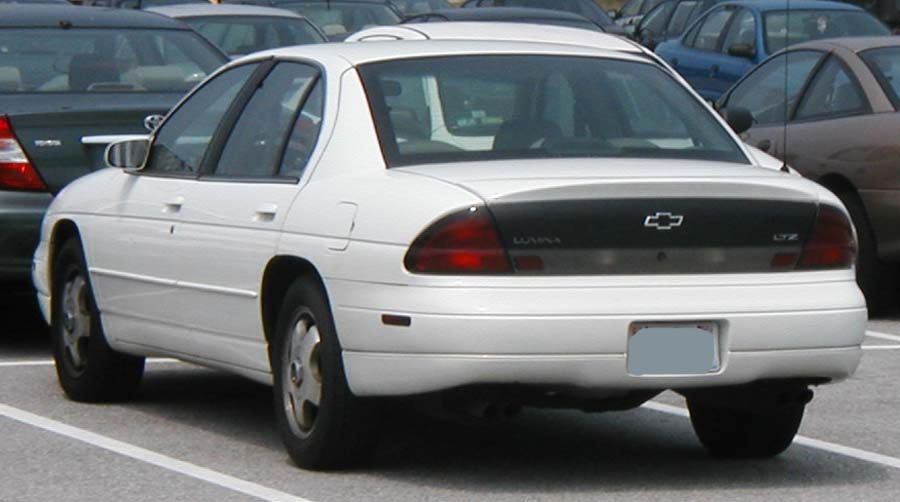 Rear view of a Chevrolet Lumina LTZ photographed in USA.